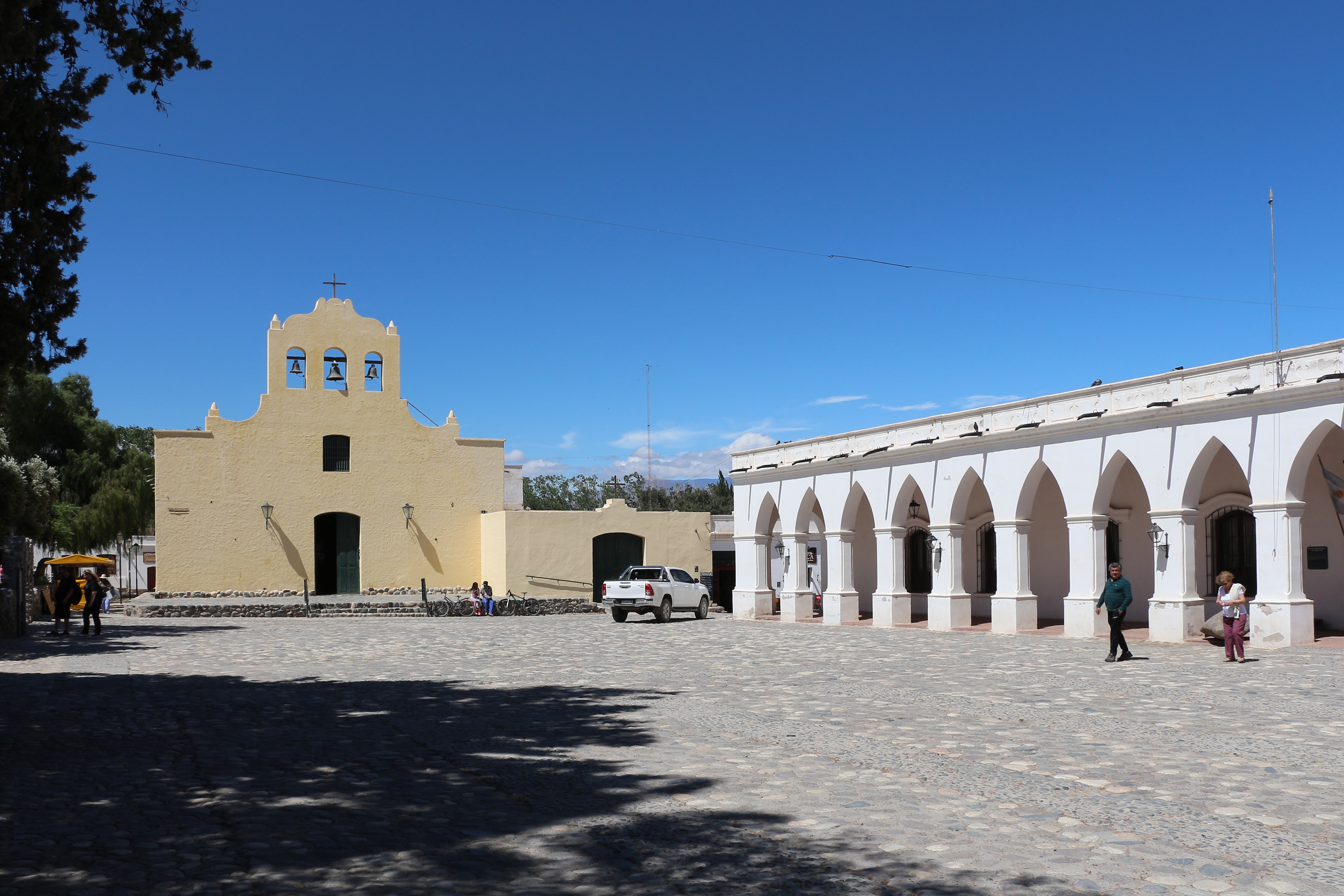 Church San José de Cachi and Archaeological Museum Pío Pablo Díaz, Cachi, Argentina